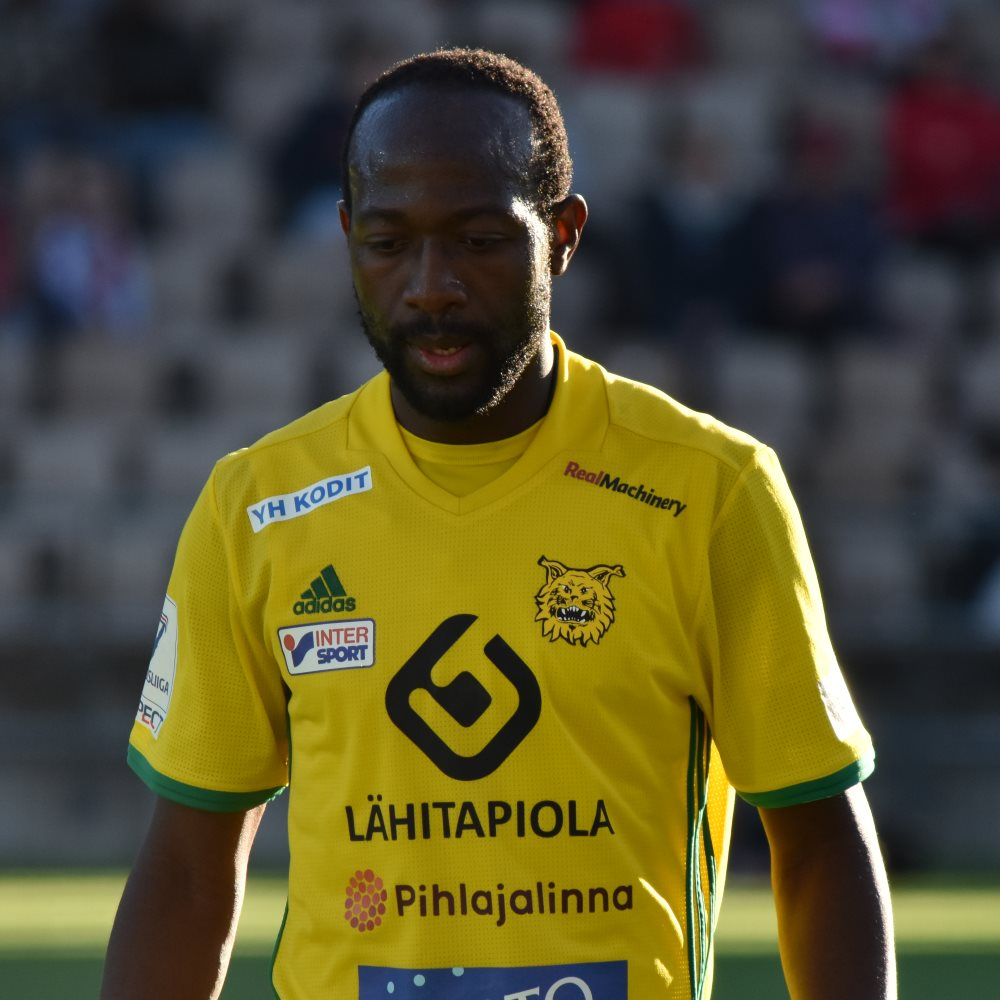 Football player Reuben Ayarna (FC Ilves)